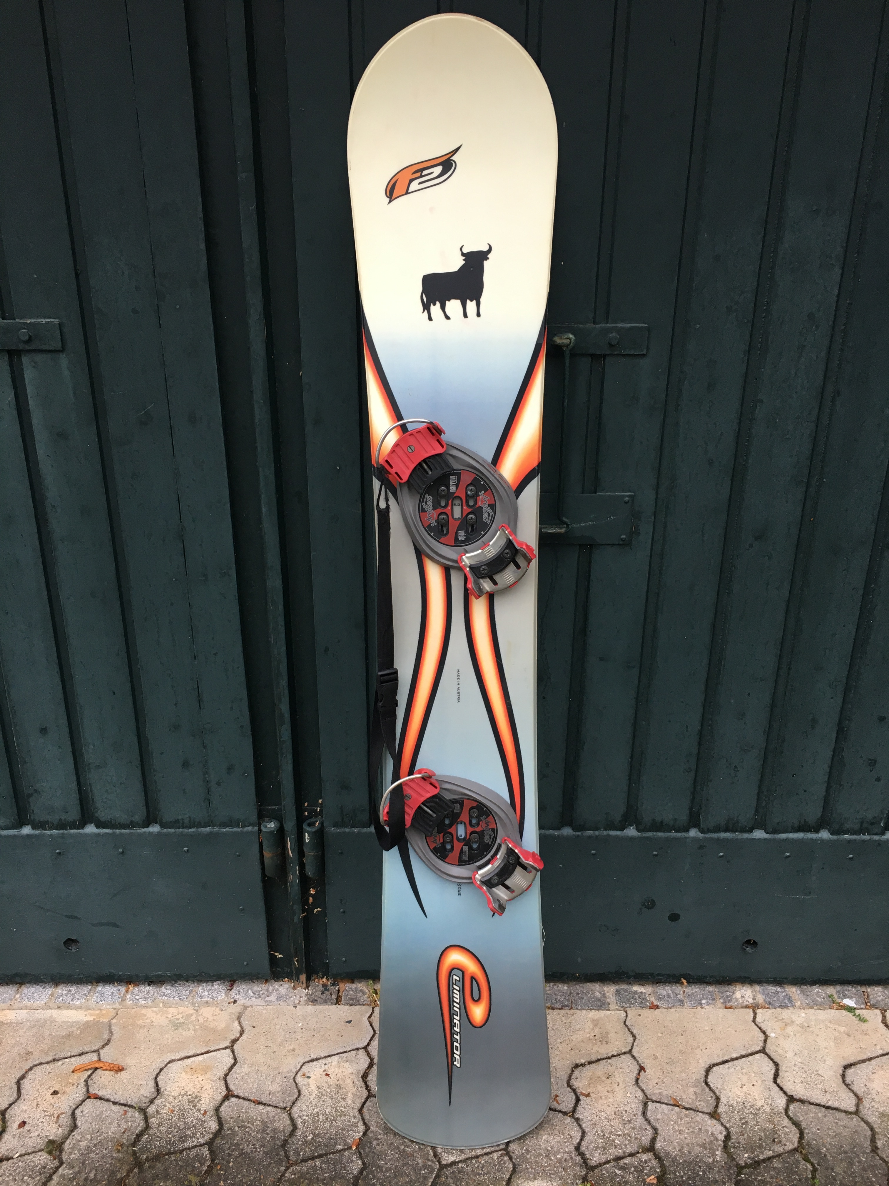 F2 Eliminator Snowboard Freecarve Boardercross 163 cm